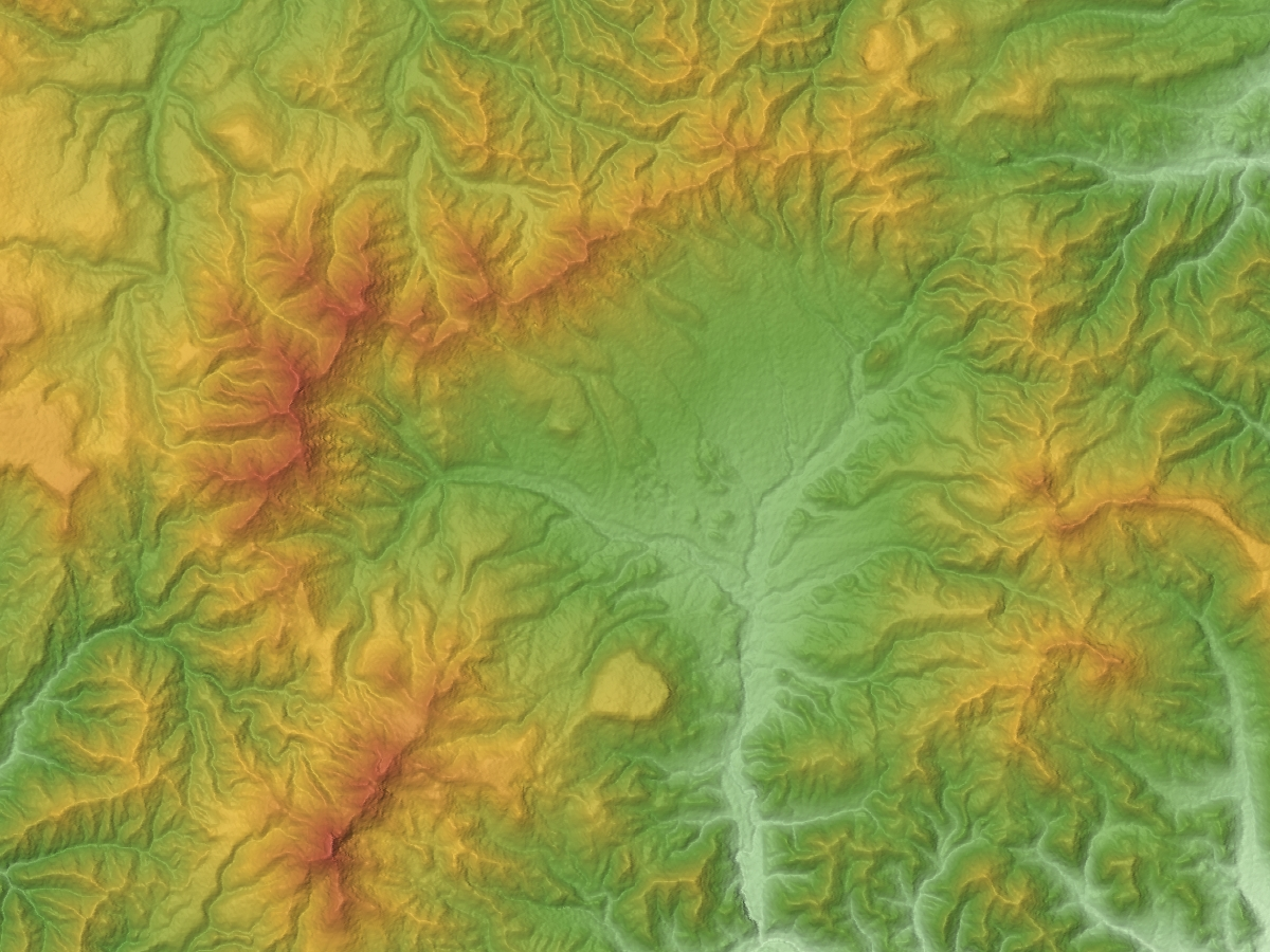 Tokachi Mitsumata Caldera in Kamishihoro, Hokkaido, Japan.